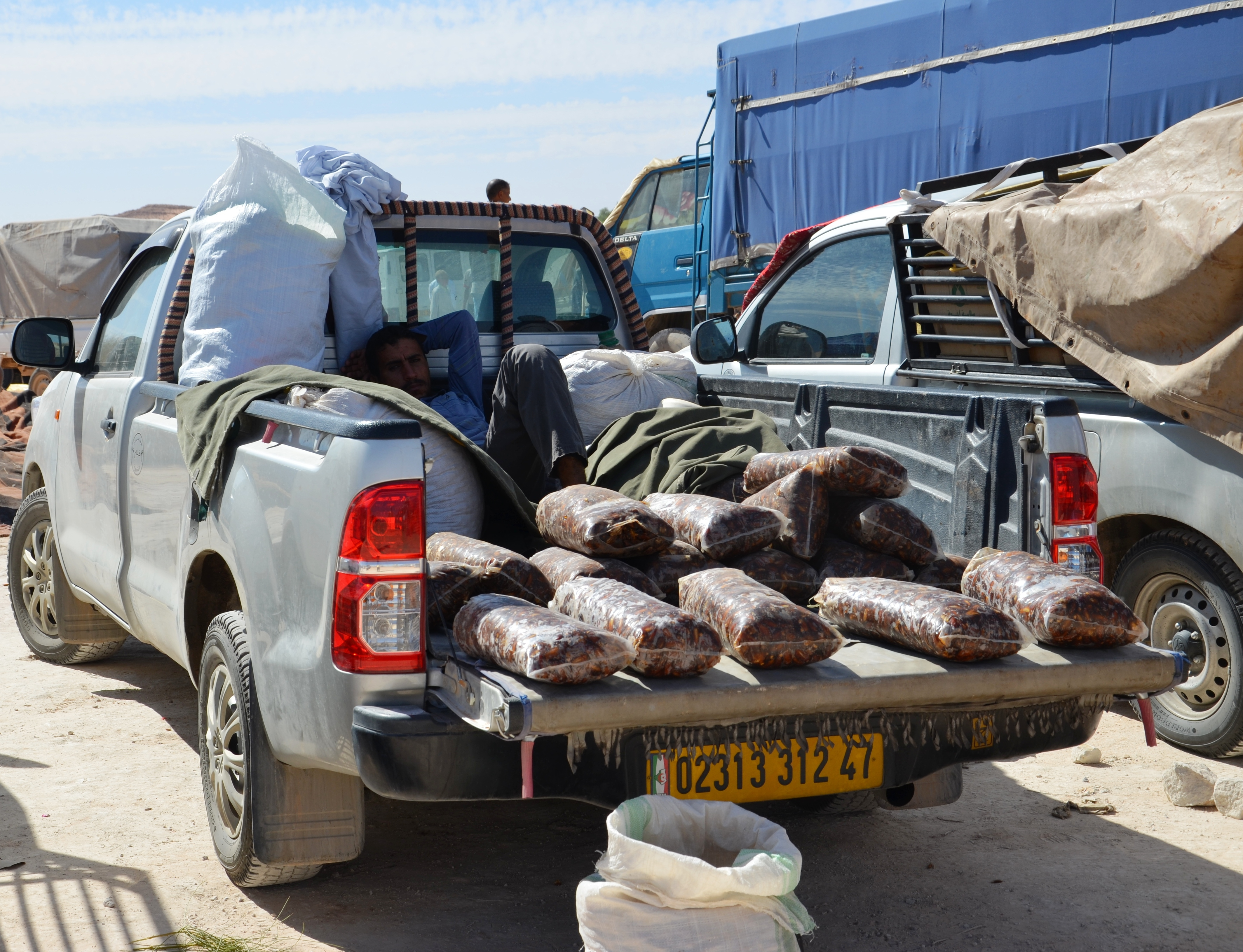 This is an image with the theme "Africa on the Move or Transport" from: Algeria